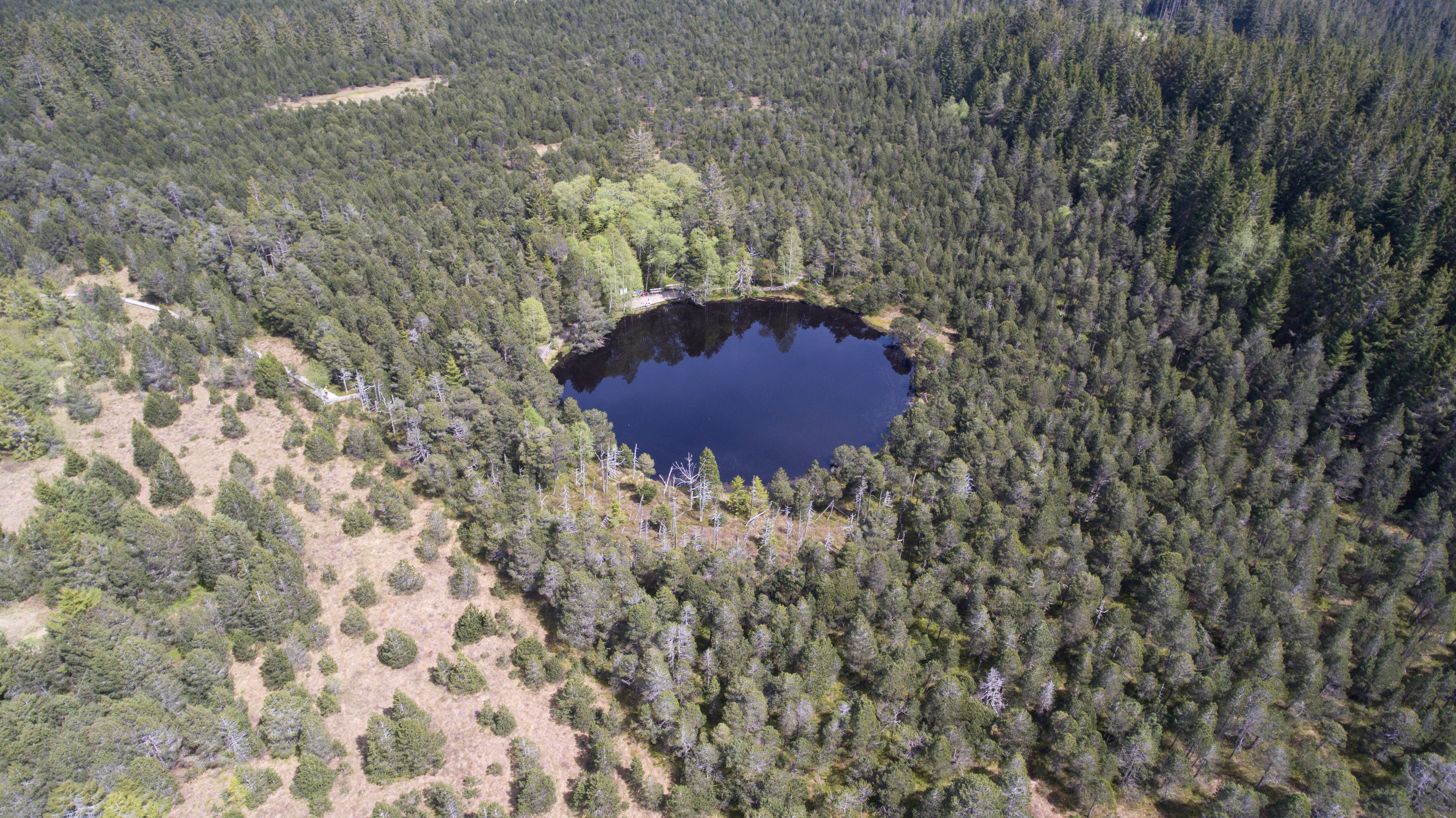 Aerial view Blindensee